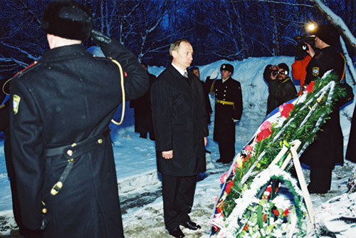 SEVEROMORSK. Laying a wreath at the tomb of Major-General Alexander Otrakovsky, a Hero of Russia, who was killed in the Chechen Republic.